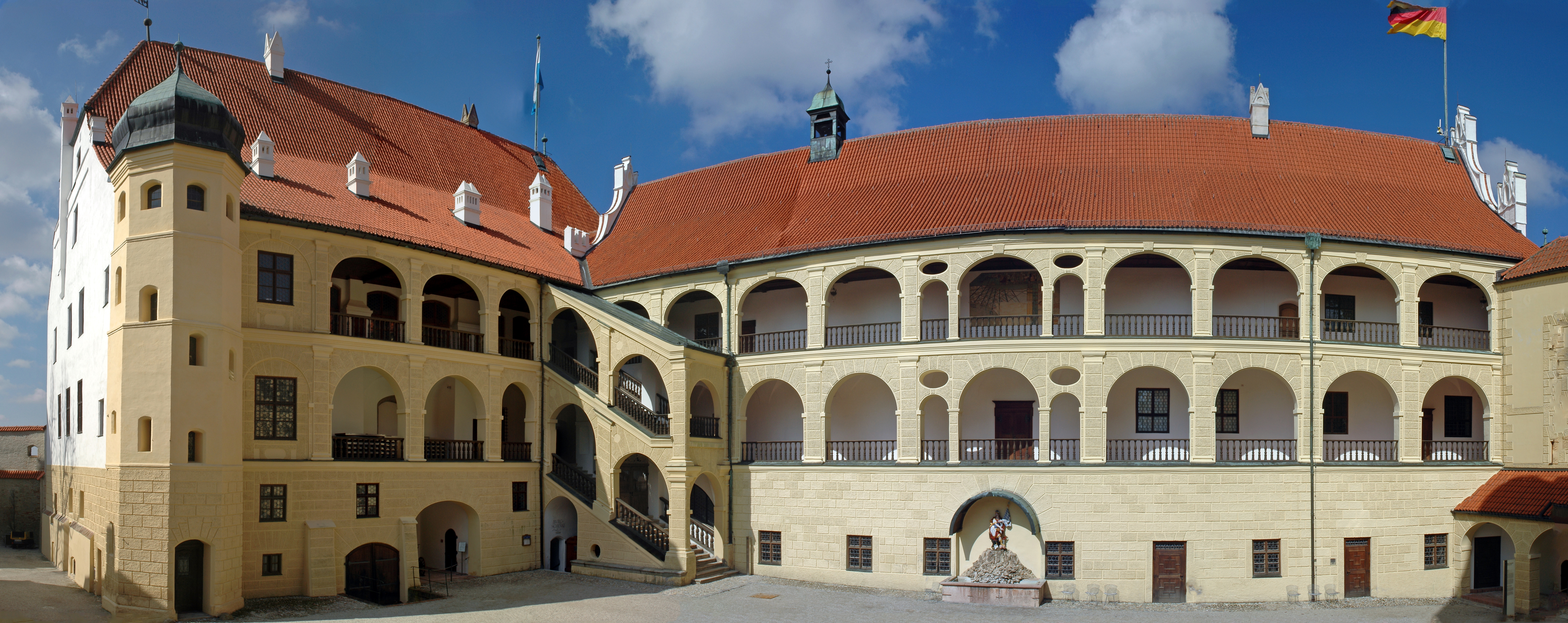 Trausnitz Castle at Landshut (Germany) - Courtyard